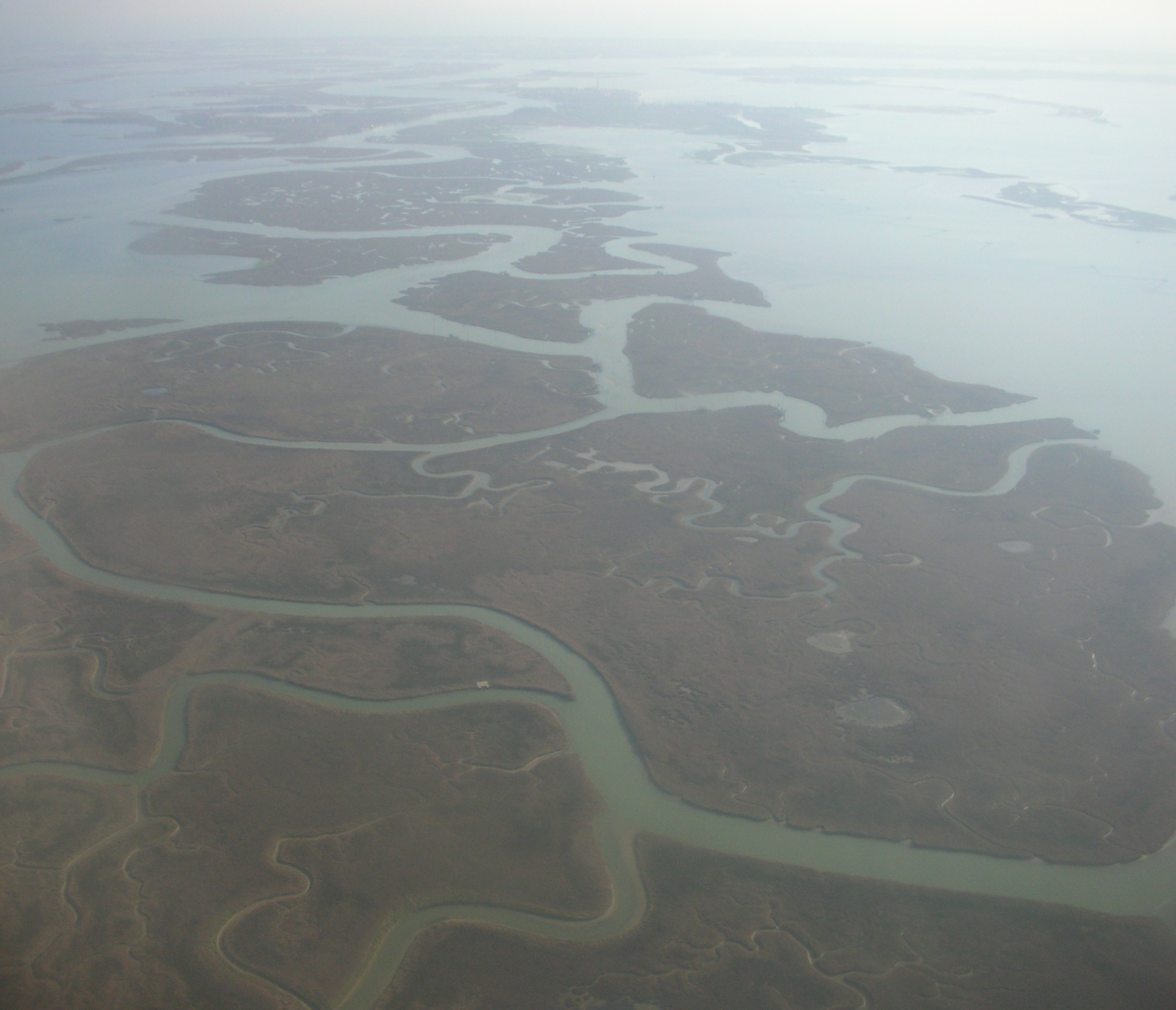 Saltmarsh in the Lagoon of Venice, in the North of Burano, near confluence of Dese river (Canale Dese) and the former Sile in fog (December 2006).